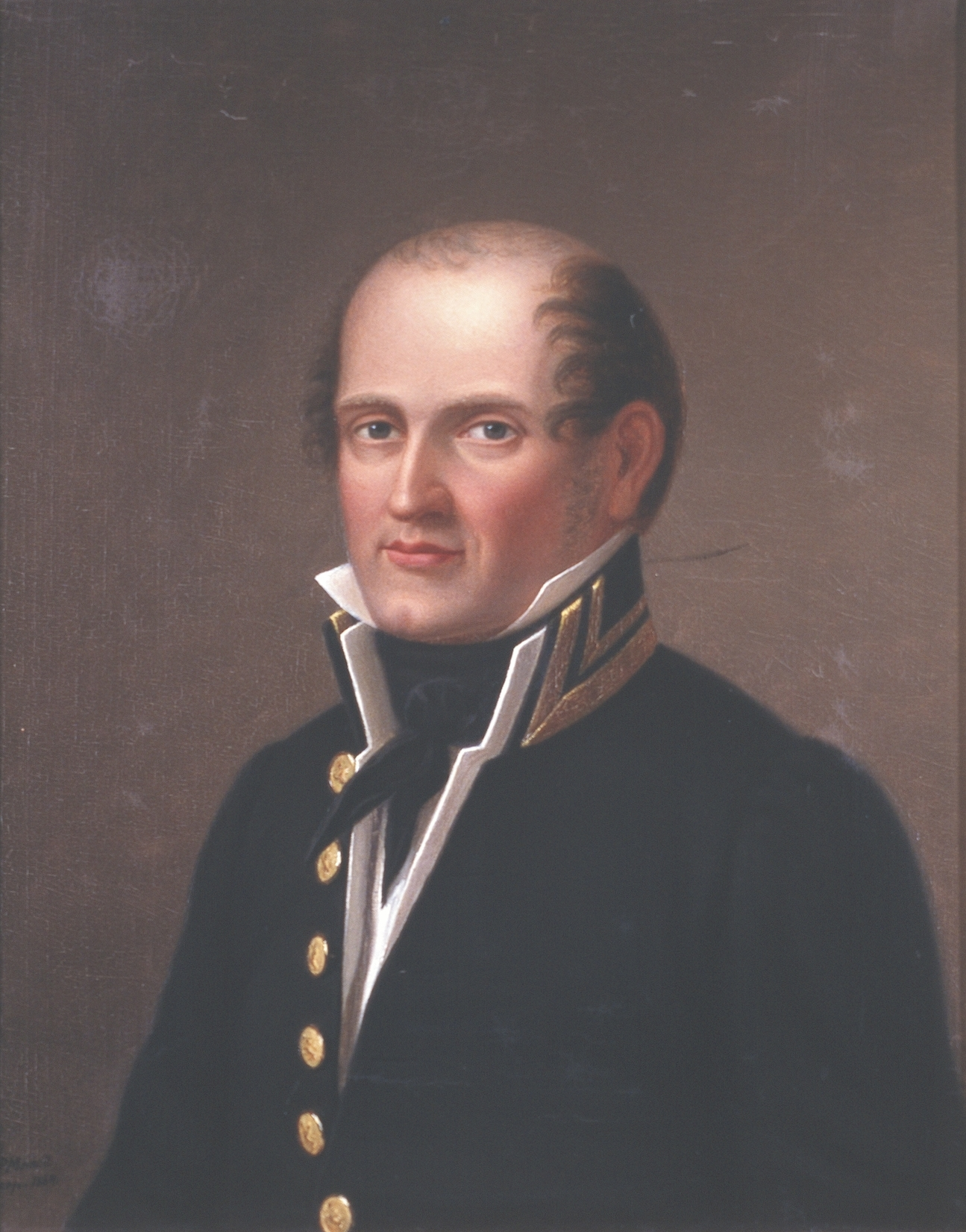 Copy after Johannes FlintoeNorsk bokmål: Portrett av Lars J. Irgens. Mørk uniform, hvit vest og skjorte, svart halsbind. Kopi etter Johannes Flintoe